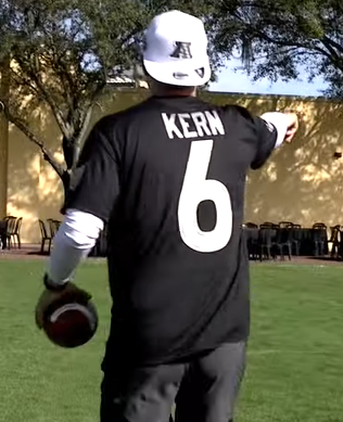 Brett Kern in 2020